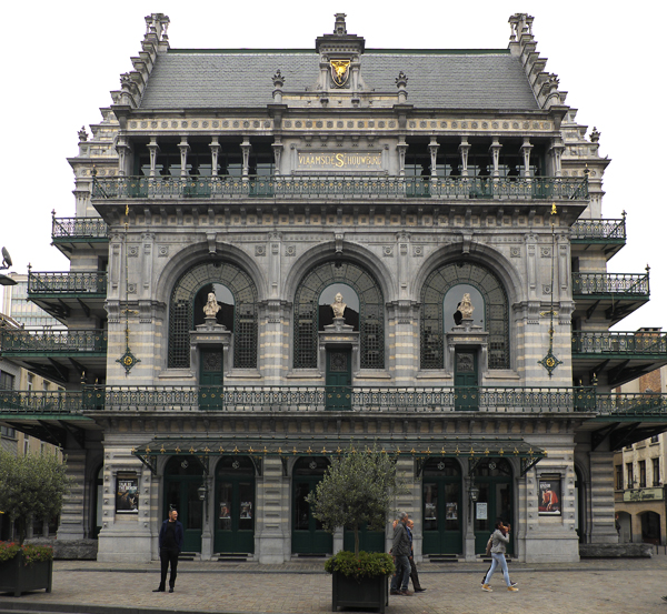 Brussel, Brussels region, Belgium; ref: PM_086972_B_Brussel; Vlaamsche Schouwburg; photographer: Paul M.R. Maeyaert; © Paul M.R. Maeyaert; ; Cultural heritage; Europeana; Europe/Belgium/Brussel; Europe/Belgium/Bruxelles